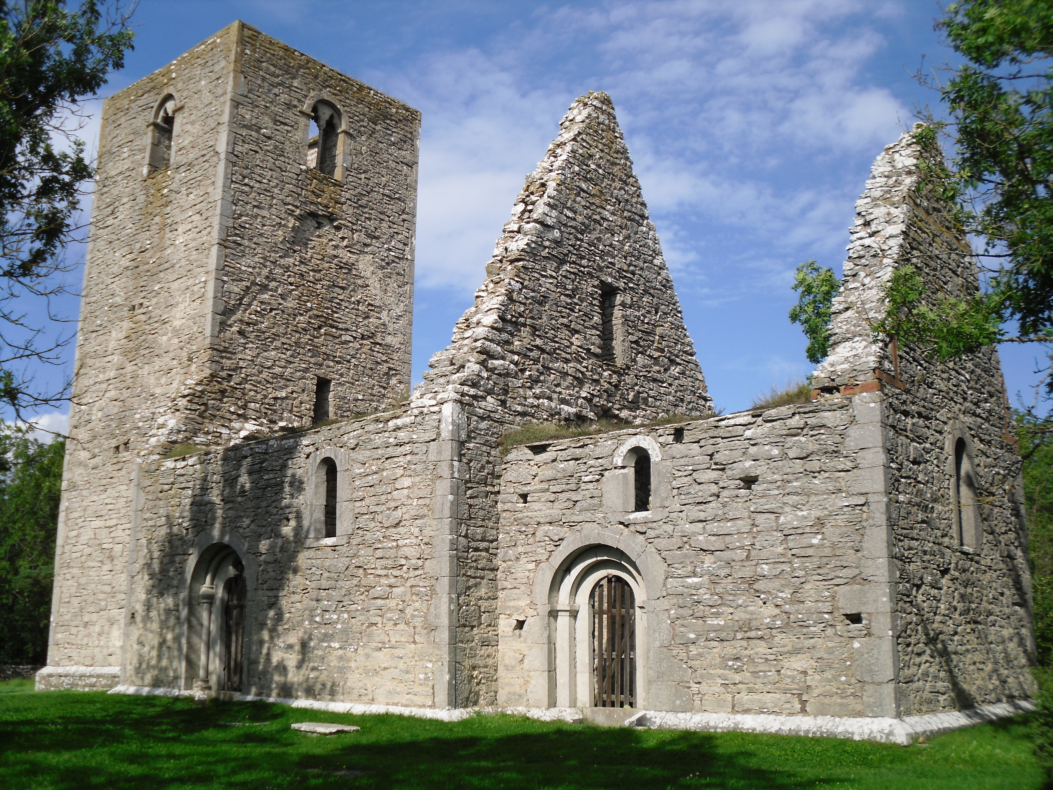 Ruins of Ganns Church, Gotland, Sweden